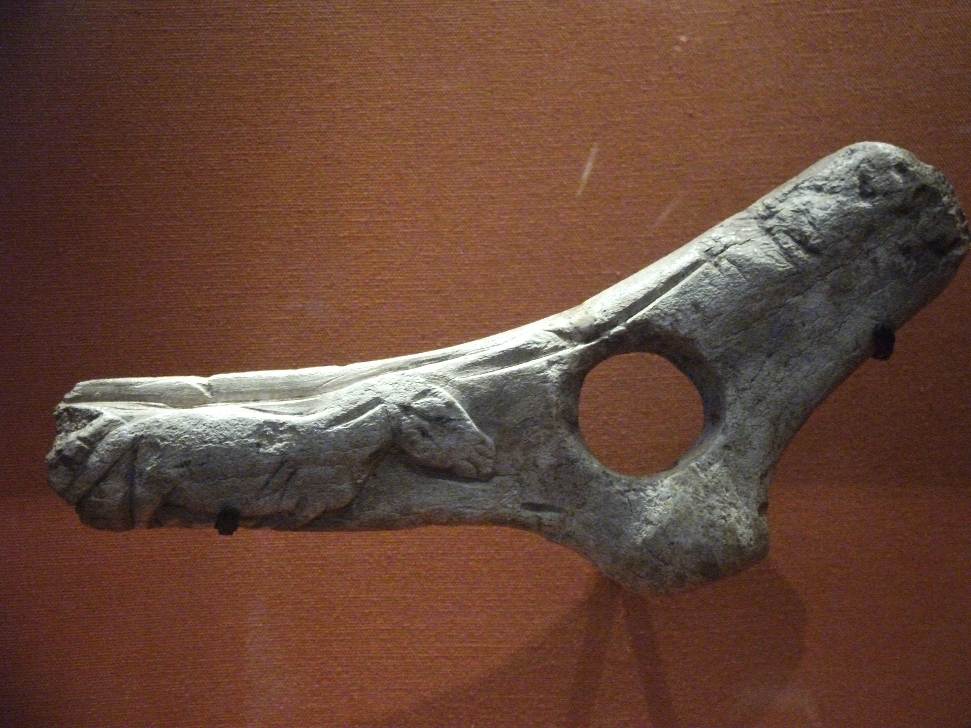 Perforated baton with low relief horse, Late Magdalenian, about 12,500 years old From the rockshelter of La Madeleine, Dordogne, France Made from reindeer antler